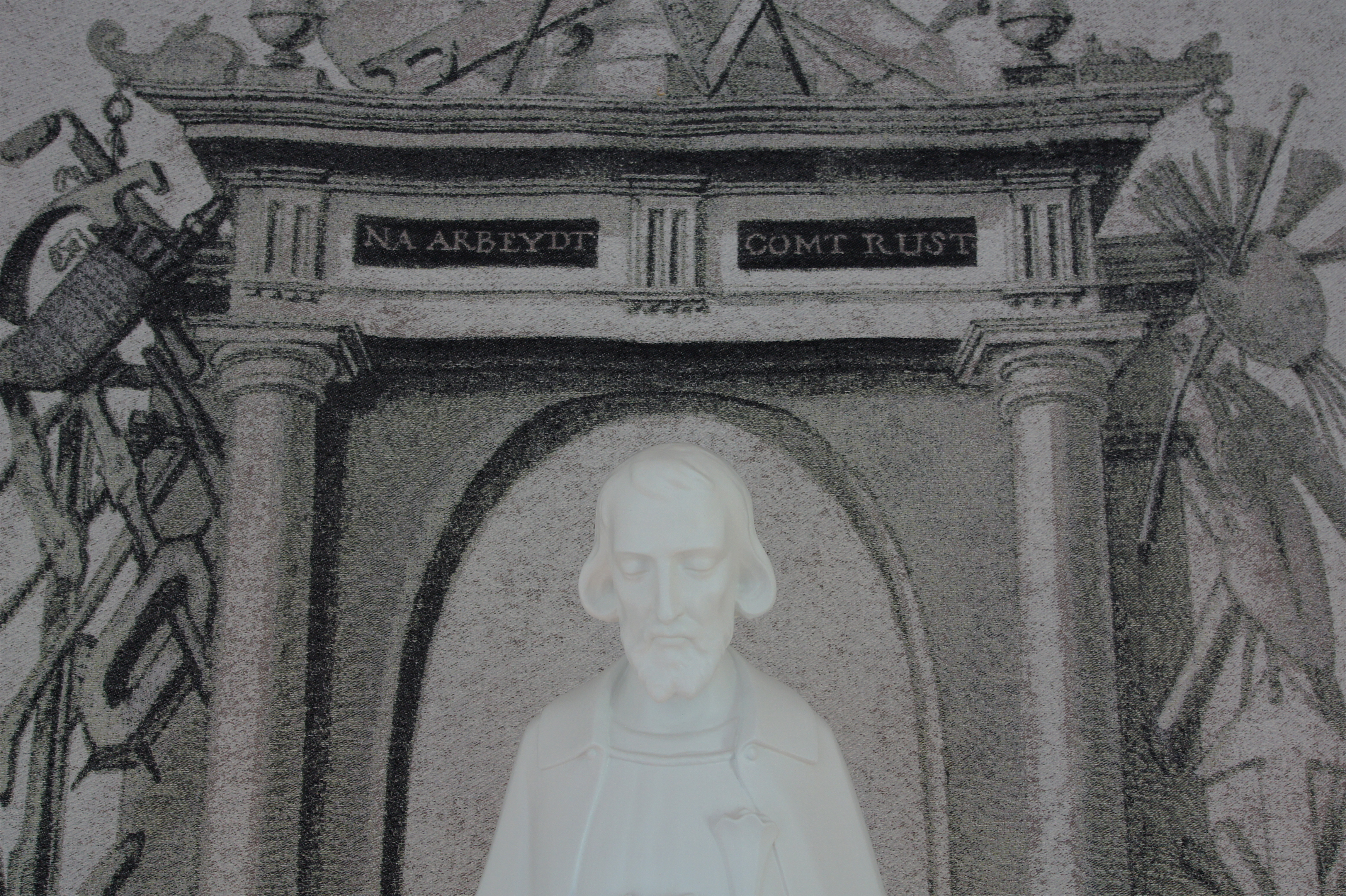 detail wandkleed